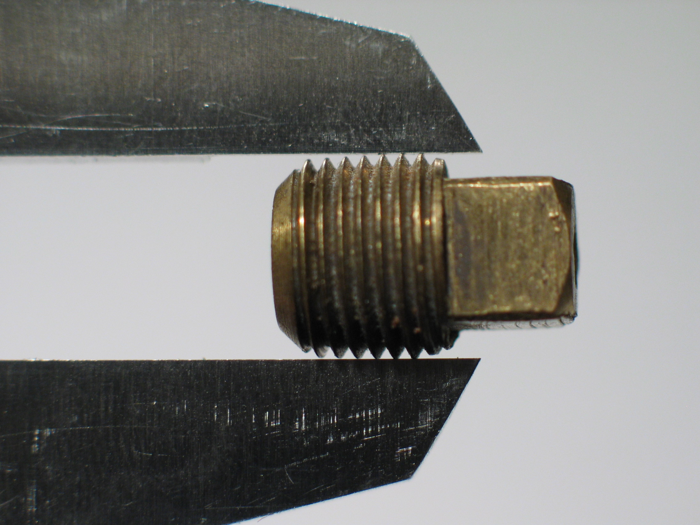 Photo by me of a brass NPT pipe plug. The plug is in calipers to demonstrate that the threaded portion is conical not cylindrical.